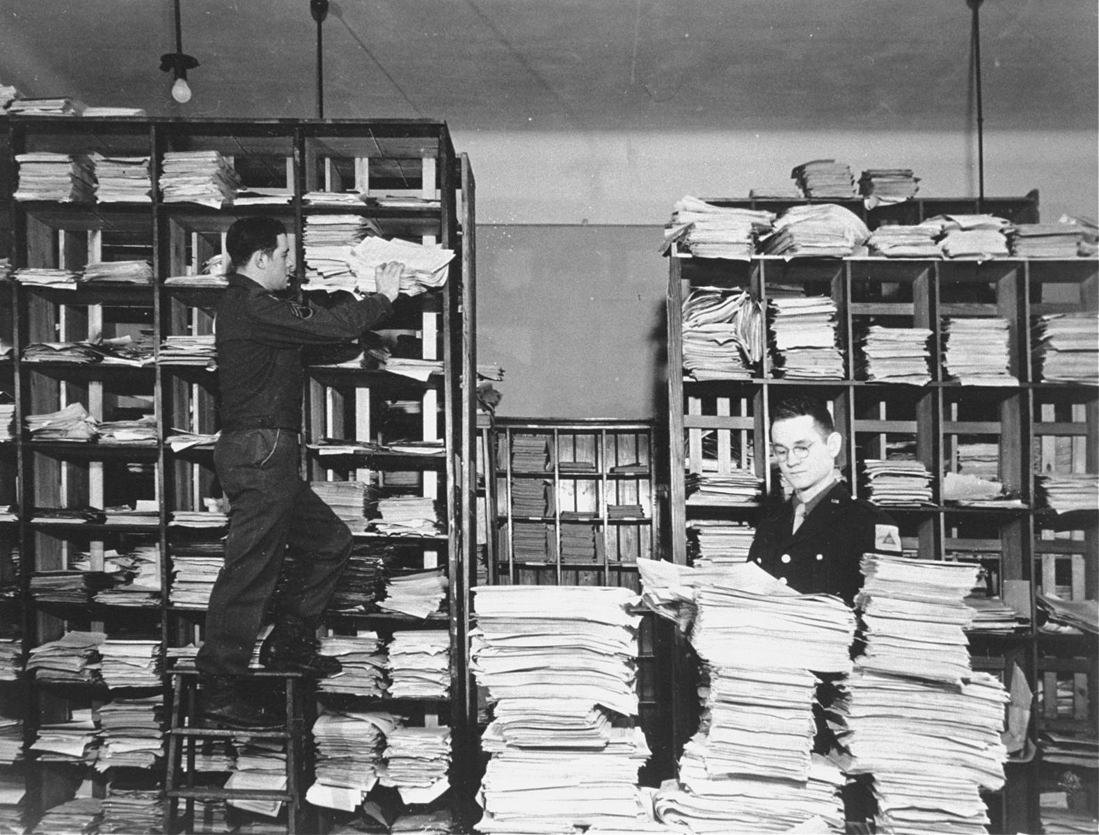 US Army staffers with evidence they've collected